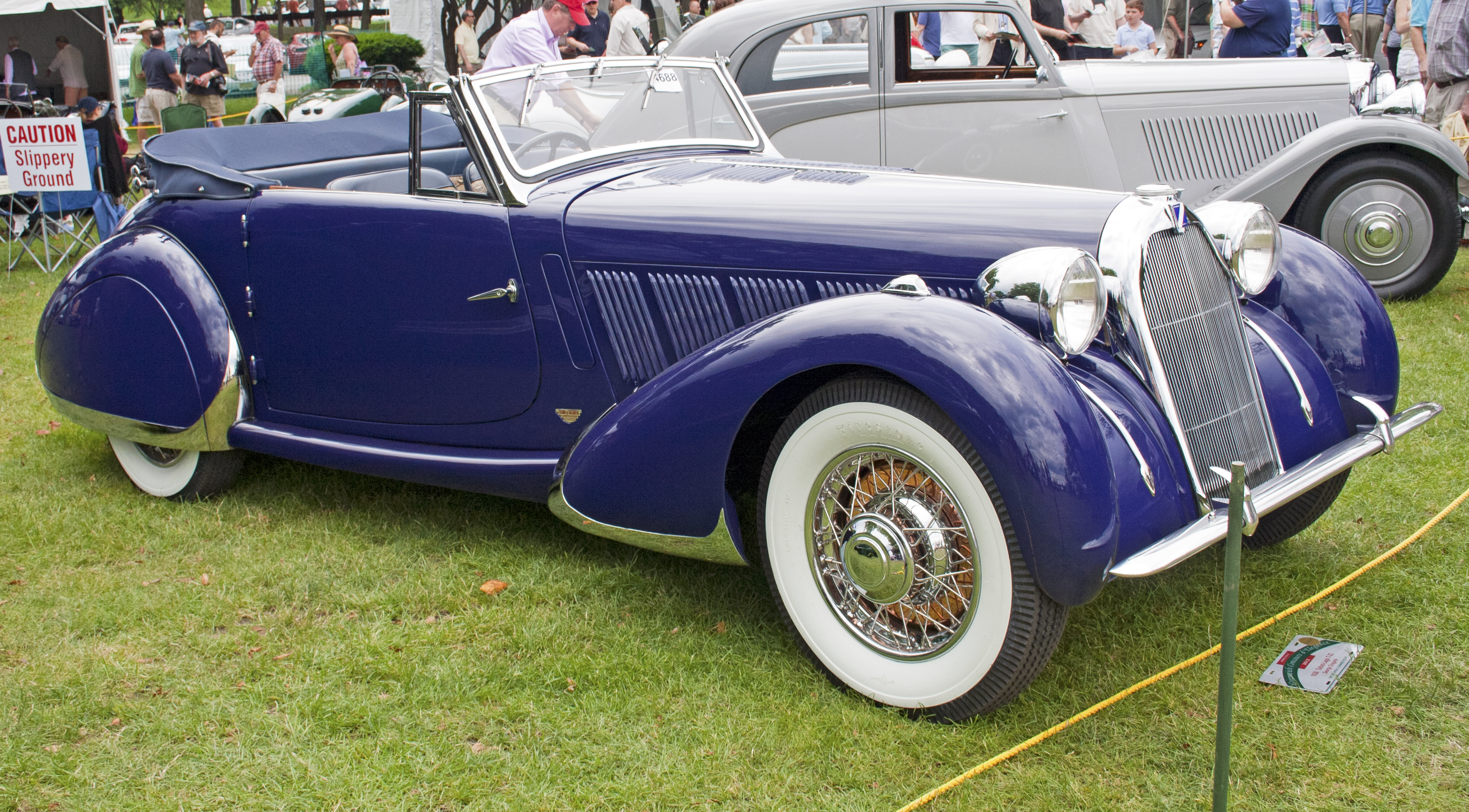 1938 Talbot-Lago T23 Cabriolet by Figoni et Falaschi at the 2012 Greenwich Concours d'Elegance. Blue leather interior with original python-skin inserts...